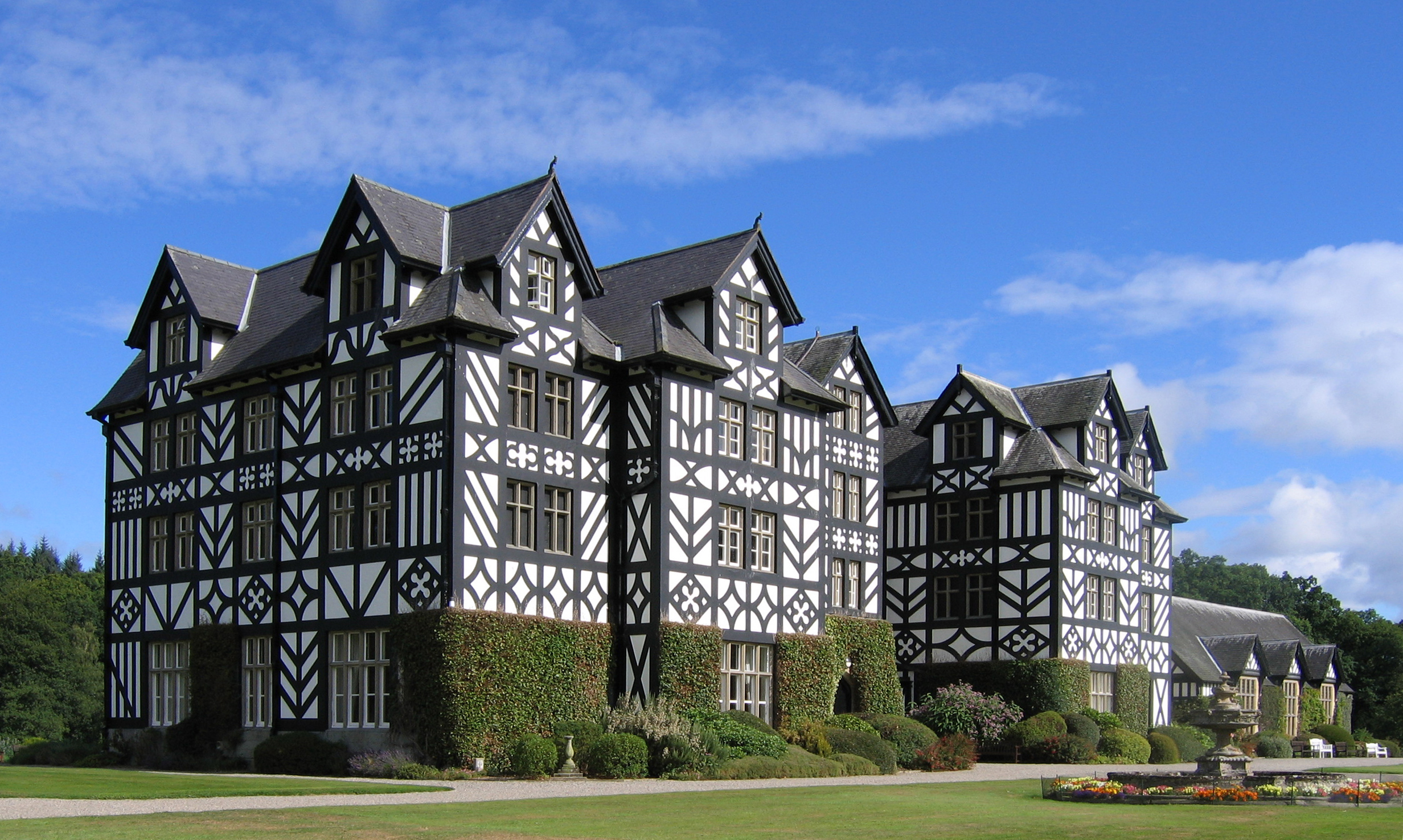 Gregynog Hall, Tregynon, near Newtown, Powys, Wales, UK.jpg